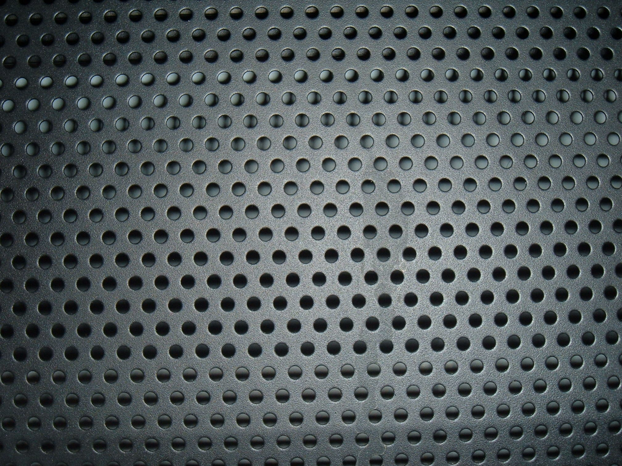 Perforated steel sheet